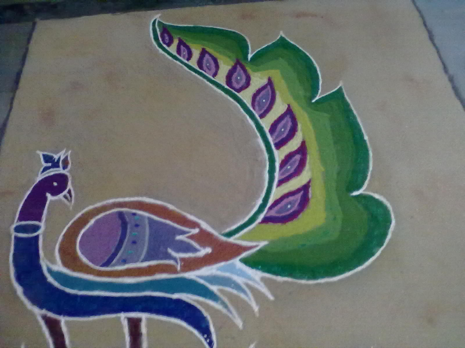 peacock is colourful bird IN this picture beauty of peacock shown as RANGOLI""